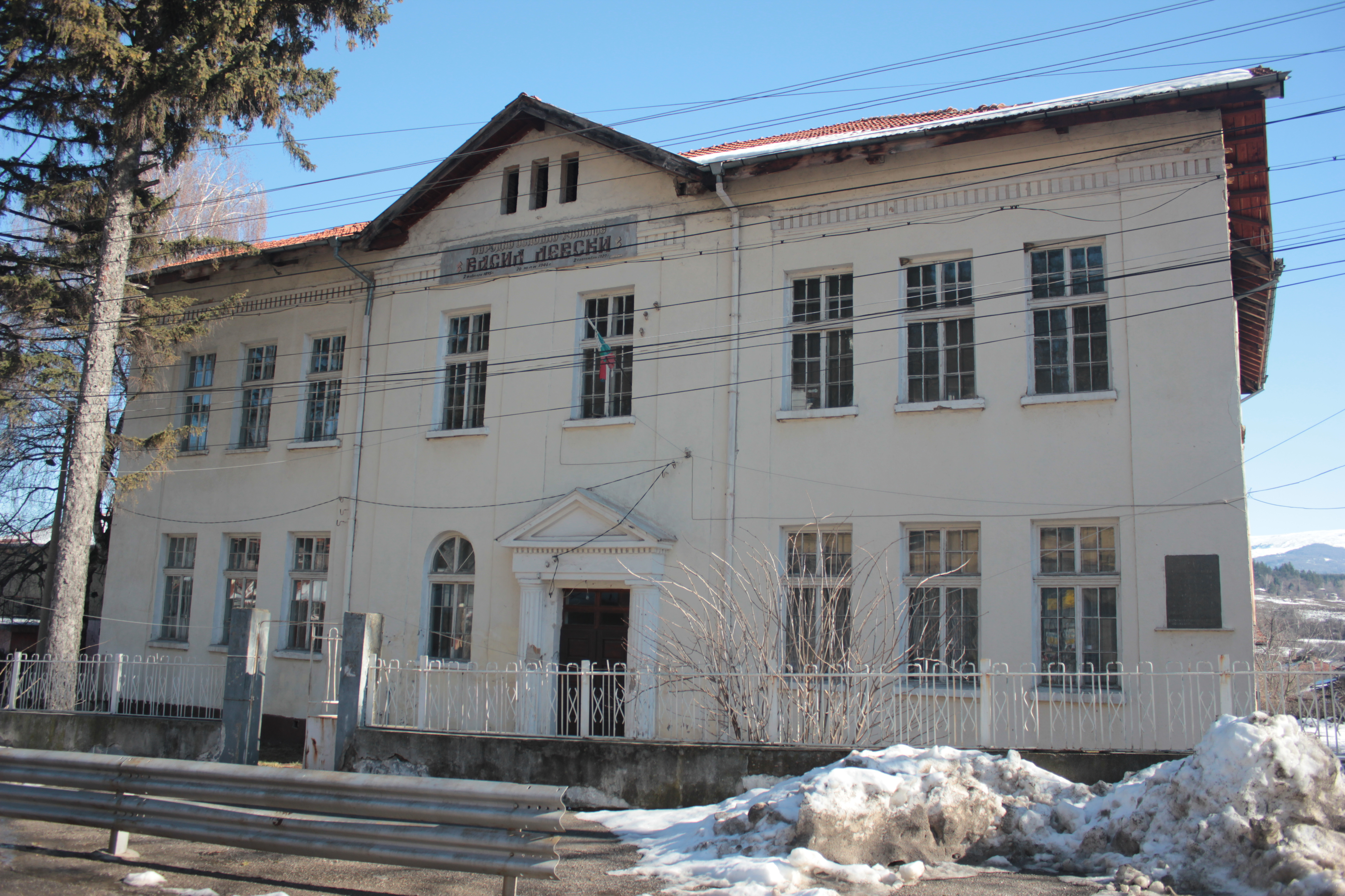 Studena primary school "Vassil Levski"